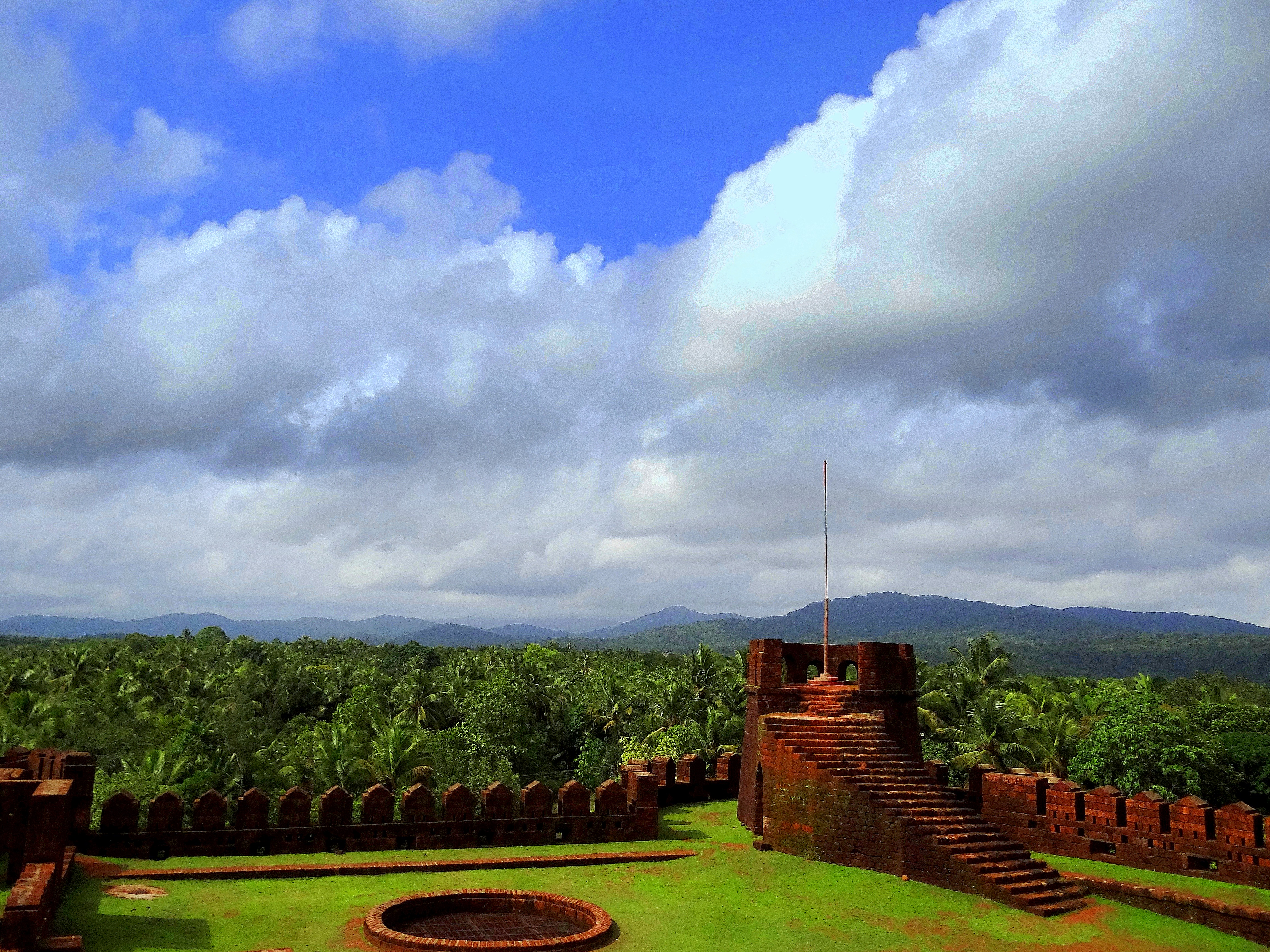 Mirjan Fort near Kumta, Karnataka